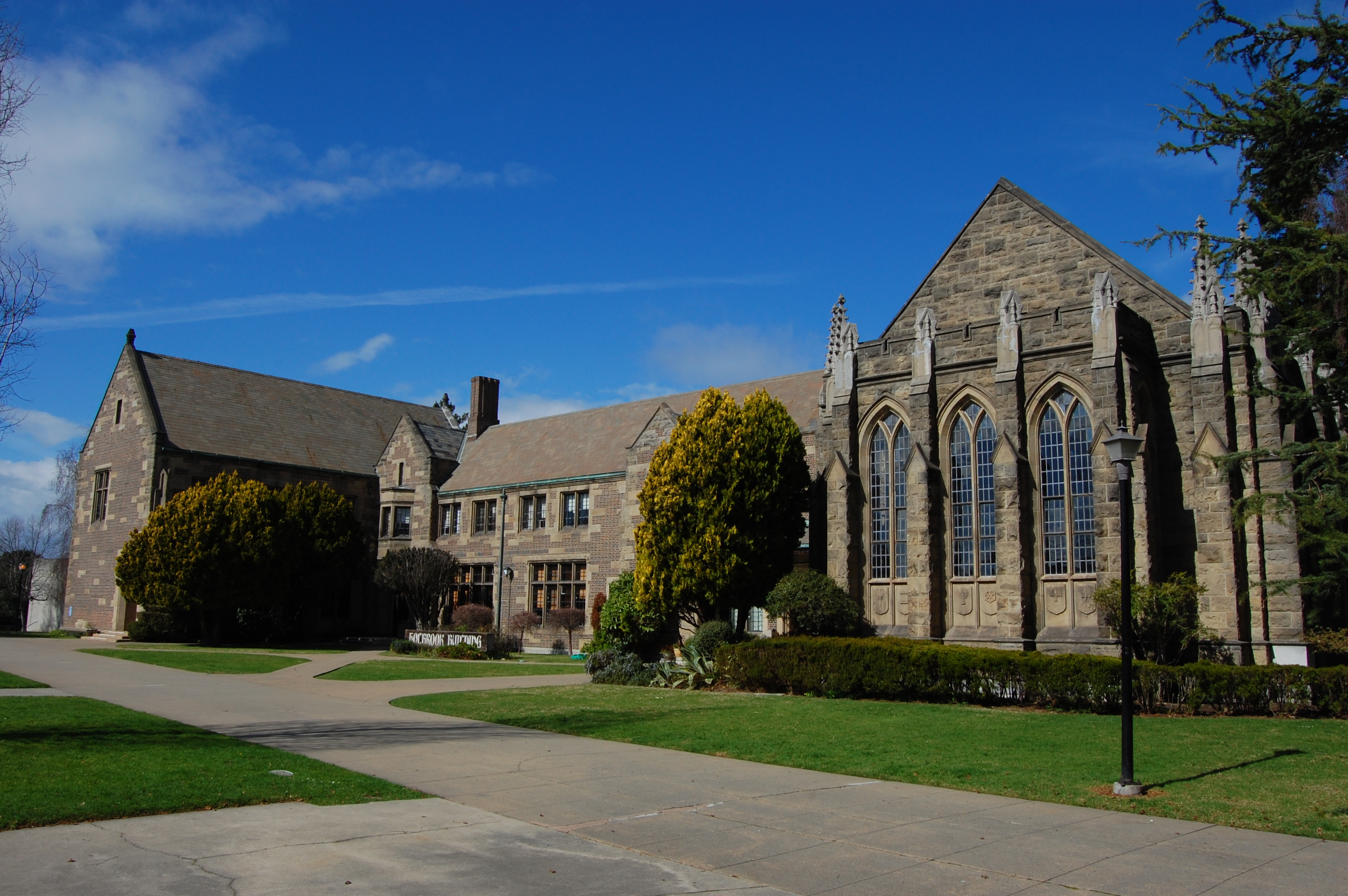 Charles Holbrook Library. 1798 Scenic Avenue. Berkeley, California, USA